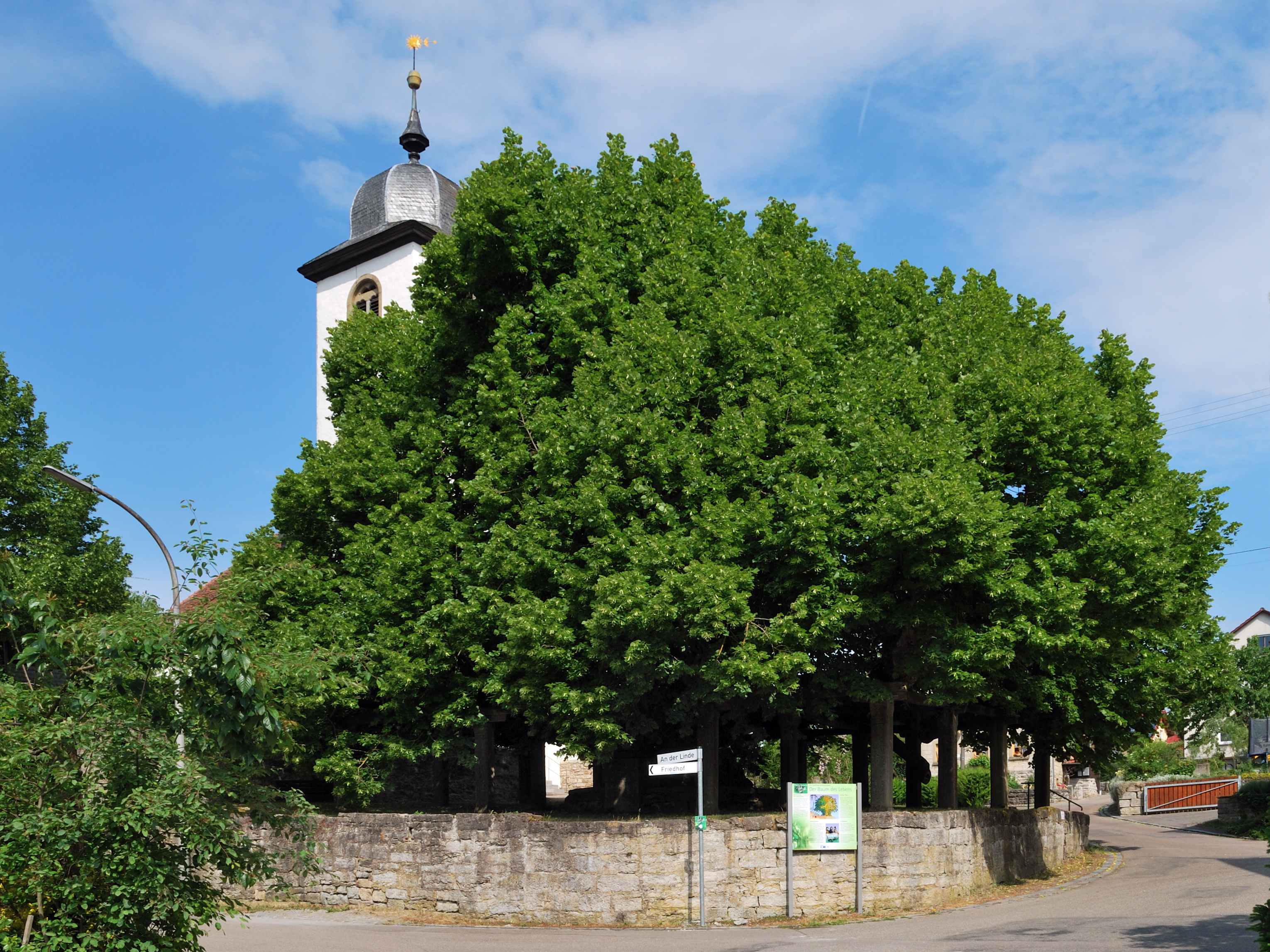 An old lime tree in Hollenbach, one of the oldest lime trees in Southern Germany.